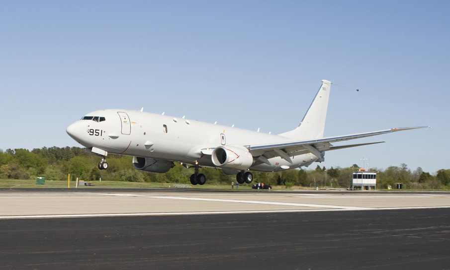 The U.S. Navy’s newest maritime patrol and reconnaissance aircraft, the Boeing P-8A Poseidon, touches down at Naval Air Station Patuxent River, Maryland (USA), on 12 April 2010. The first test aircraft, known as T1, flew from the Boeing facilities in Seattle to NAS Pax River to continue flight testing.